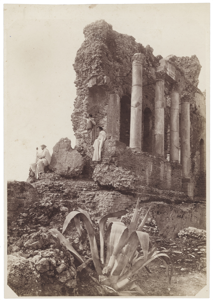 Wilhelm von Gloeden (1856-1931), The Greek theatre in Taormina, in Sicily (Italy), around 1893. catalogue number: 60. This image was printed in the article by Ludwig Pietsch (1824-1911), Kunst und Photographie, on the "Velhagen & Klasings Monatshefte", 1893-94, p. 393.